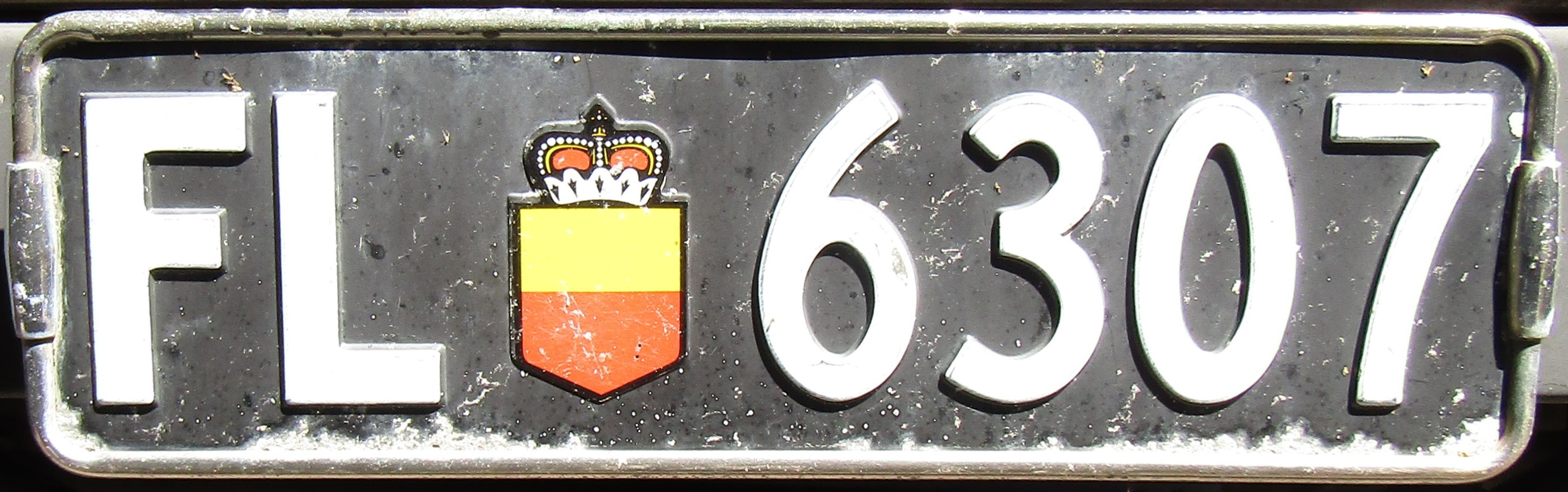 Old Liechtenstein license plate (front plate) issued between 1957 and 1972